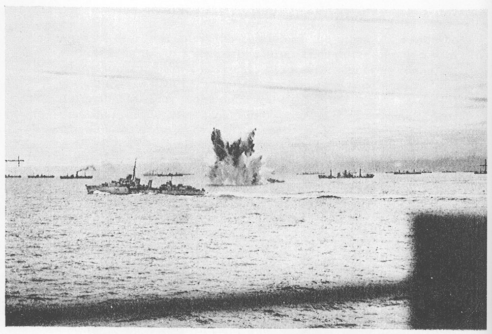 Convoy to North Russia PQ 18, September 1942. Destroyer Eskimo in foreground.